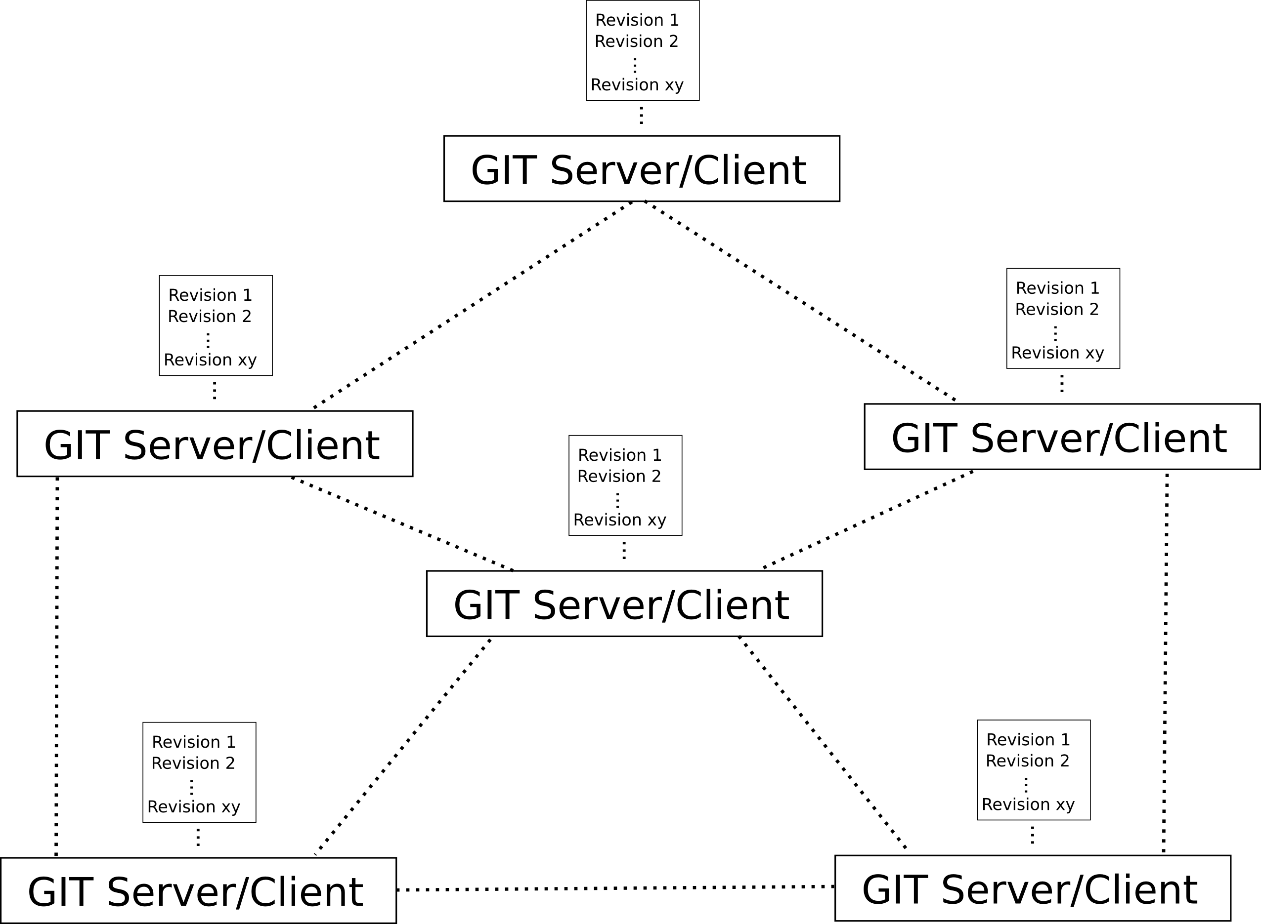 GIT server/client structure.